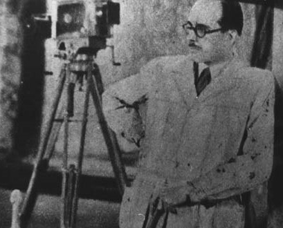 Juan Manuel Concado- escenógrafo